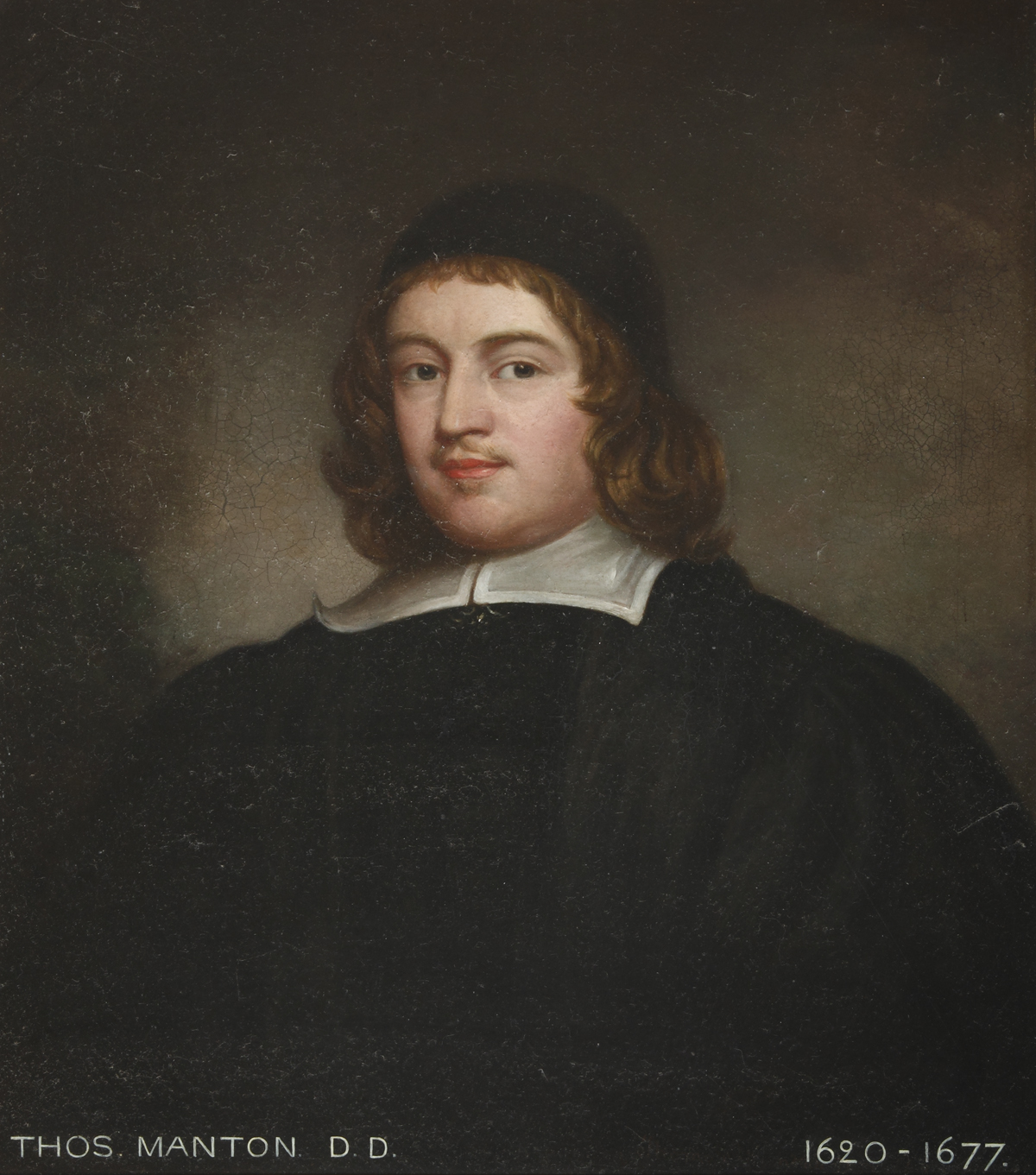 Oil on canvas, 80 x 65 cm Collection: Mansfield College, University of Oxford